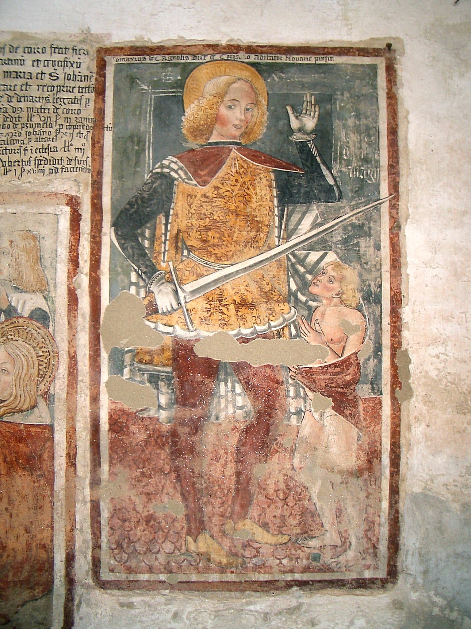 Tommaso Cagnola, St Martin and the Beggar, fresco, last decades of XV century, Bolzano Novarese, Chiesa di San Martino di Engrevo